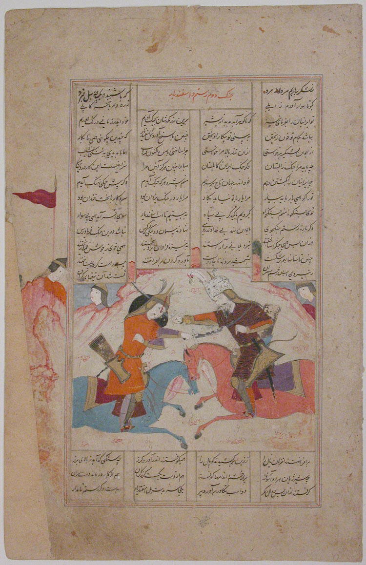 Folio from an illustrated manuscript; Codices